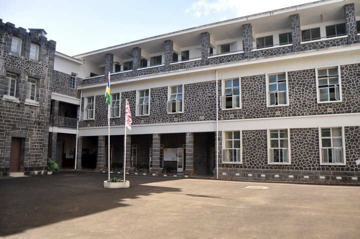 The CSE Architecture